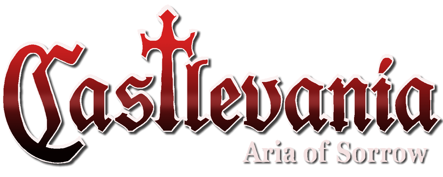 The logo of the Konami's Castlevania: Aria of Sorrow video game.